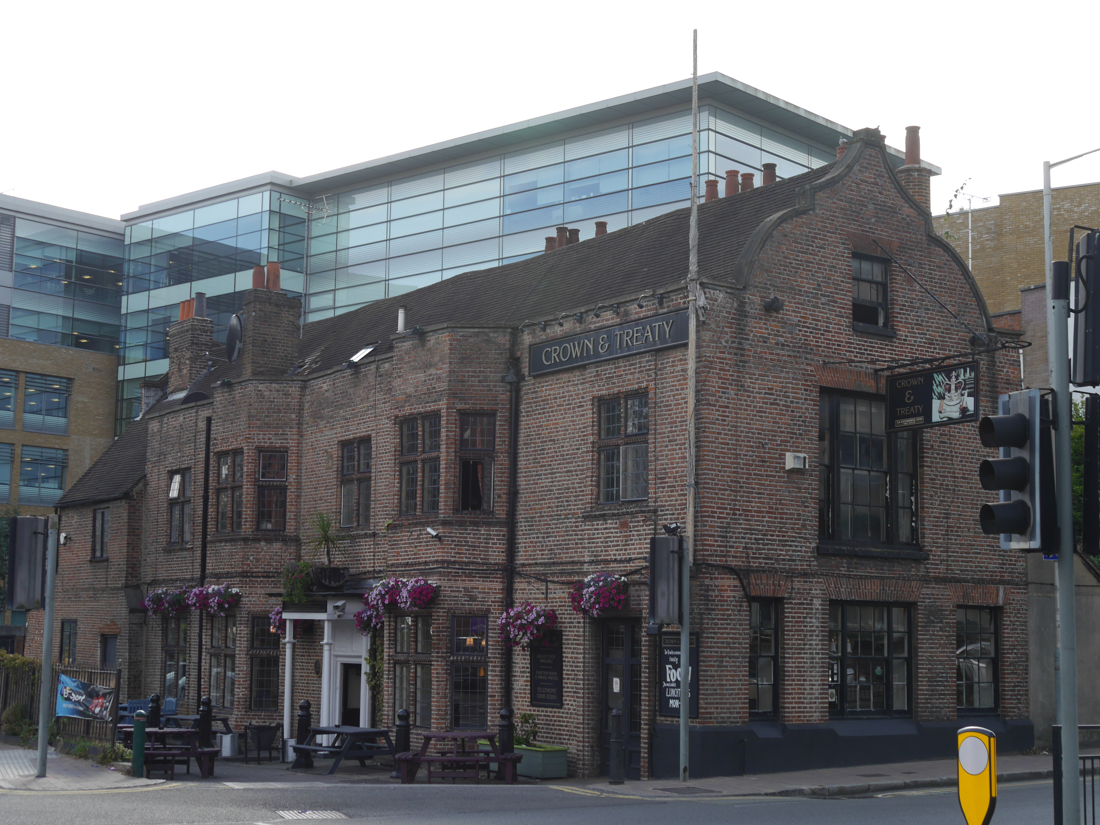 Crown and Treaty, Uxbridge, 2016